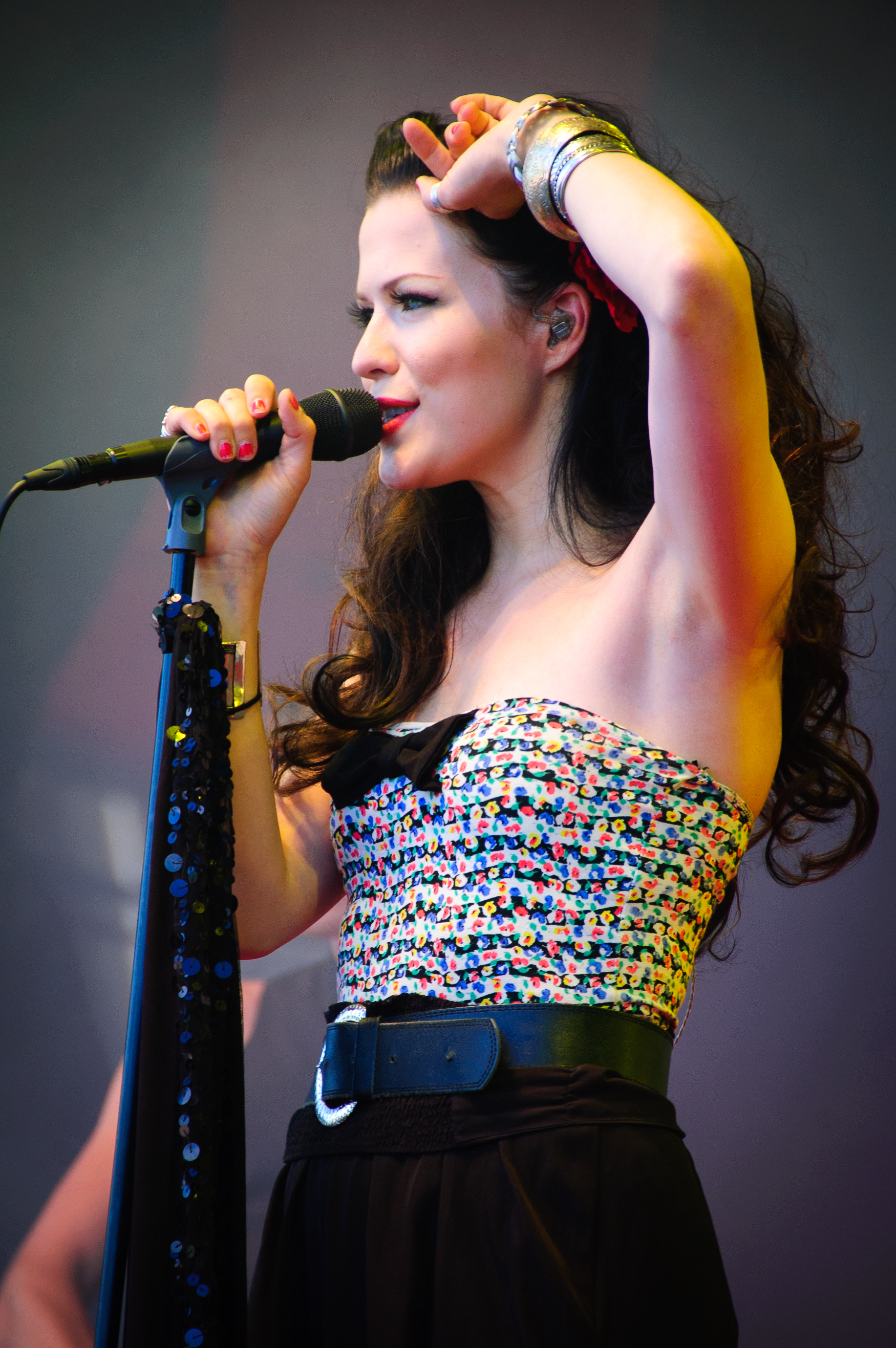 Finnish vocalist Jenni Vartiainen performing at the Ilosaarirock festival in Joensuu, Finland.